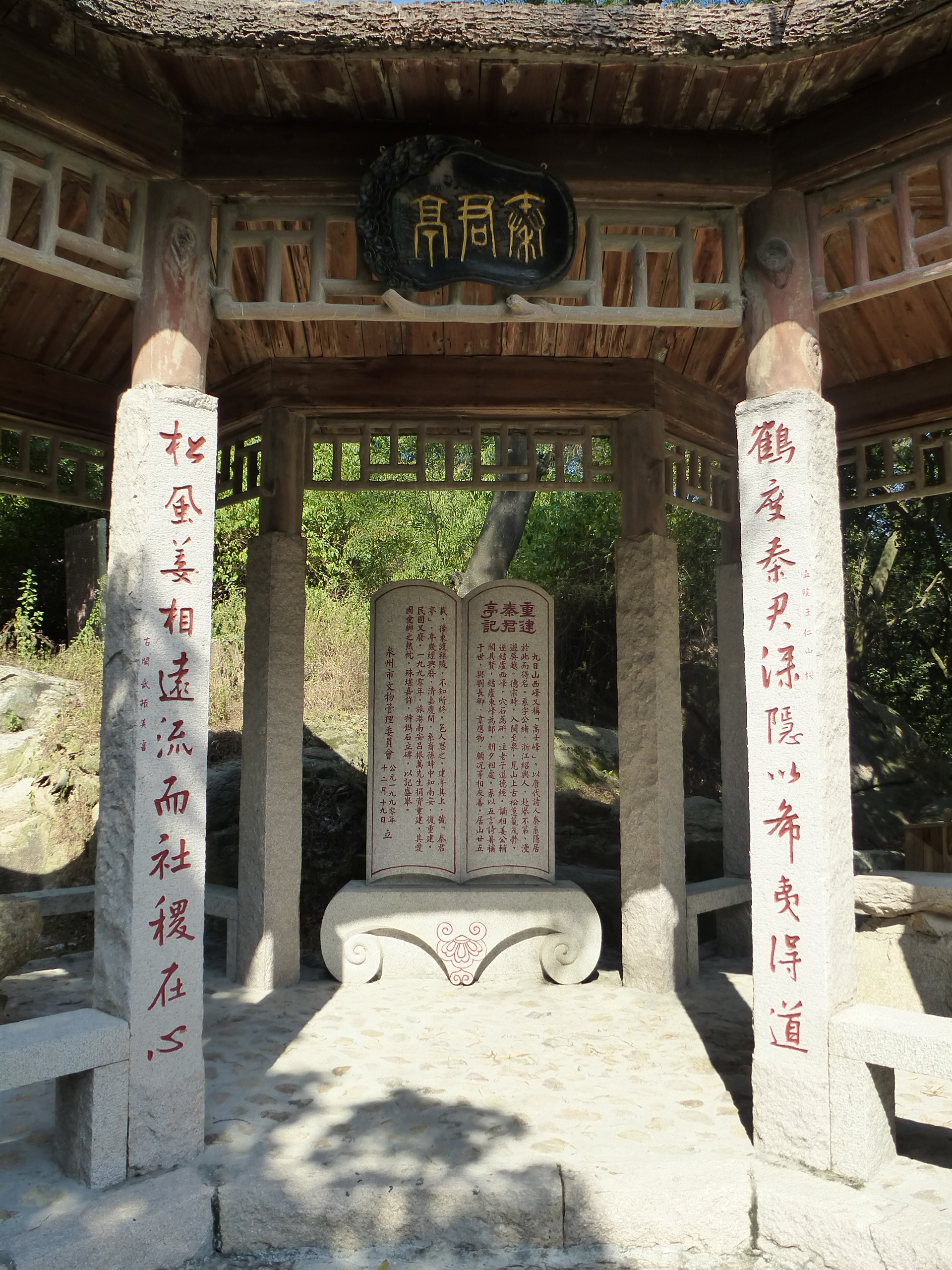 Jiuri Mountain